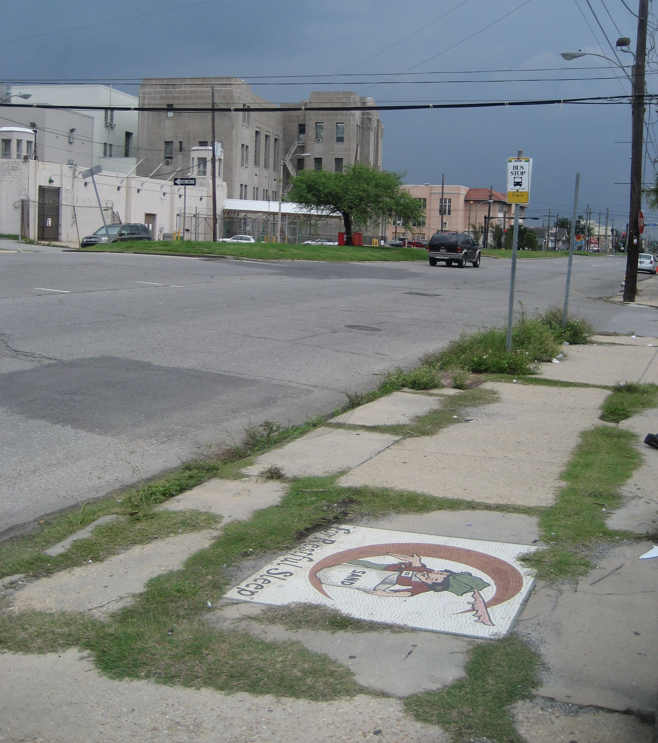 New Orleans: Broad Avenue, Mid-City, looking downriver towards Tulane Avenue. At left is Courthouse and Orleans Parish Prison. In foreground at right is old sidewalk mosaic formerly at entrance to long gone bed factory.